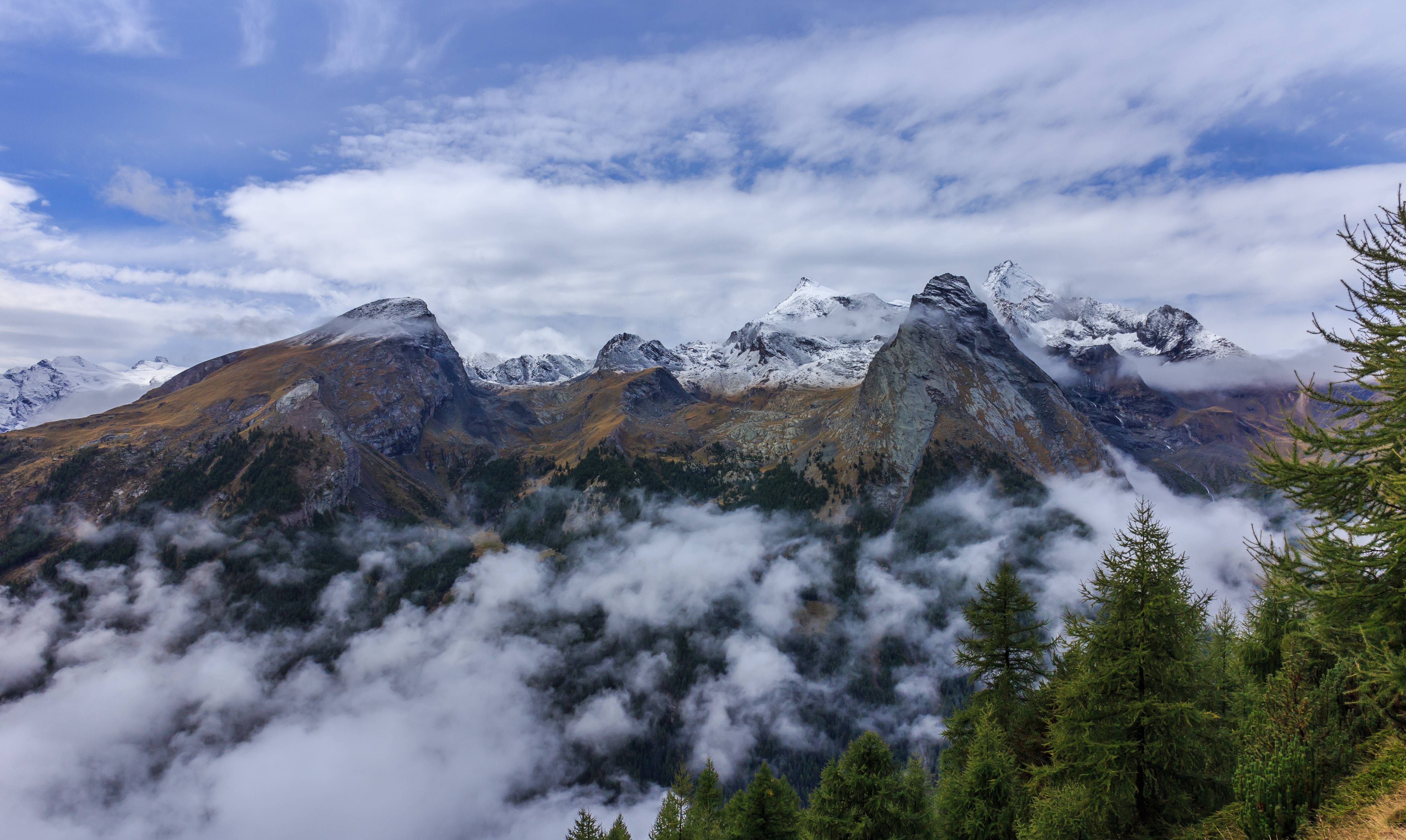 Mountain hike from Gimillan (1805m.) to Colle Tsa Sètse Cogne Valley (Italy). View of the surrounding Alpine peaks of Gran Paradiso.